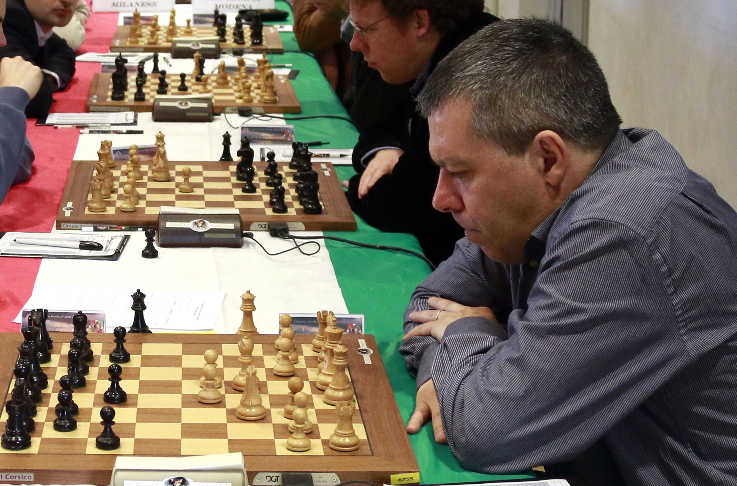 Federico Manca. Italian chess player. Italian Team Championship, Civitanova Marche (Italy), April 29th/May 3rd, 2015.